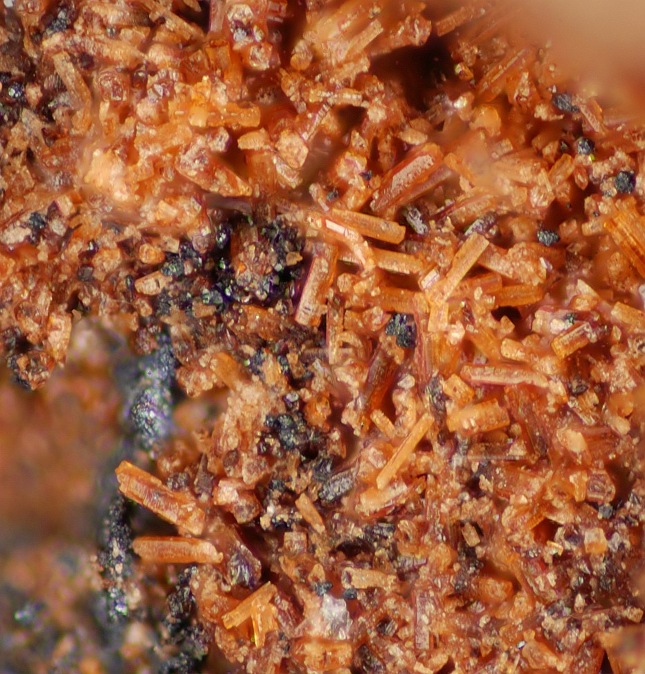 Orientite Locality: Manganese Mine, Copper Harbor, Keweenaw County, Michigan, USA Original description: Collected 2011 by D. Maietta. Field of view is 0.68mm Lens: Nikon M Plan 20 F-stop: N/A Mounting: Normal, extension = 210 mm FOV: 0.68 mm Lighting: Dual fiber partially diffused Processing: CombineZP do-stack